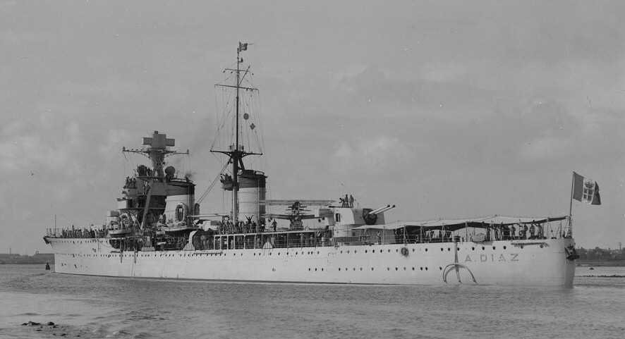 Italian cruiser Armando Diaz